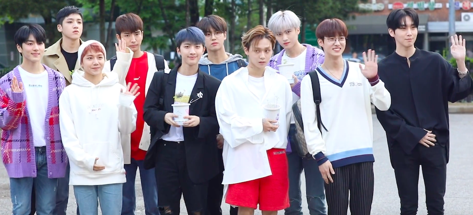 Pentagon heading to KBS for Music Bank on May 3, 2018.